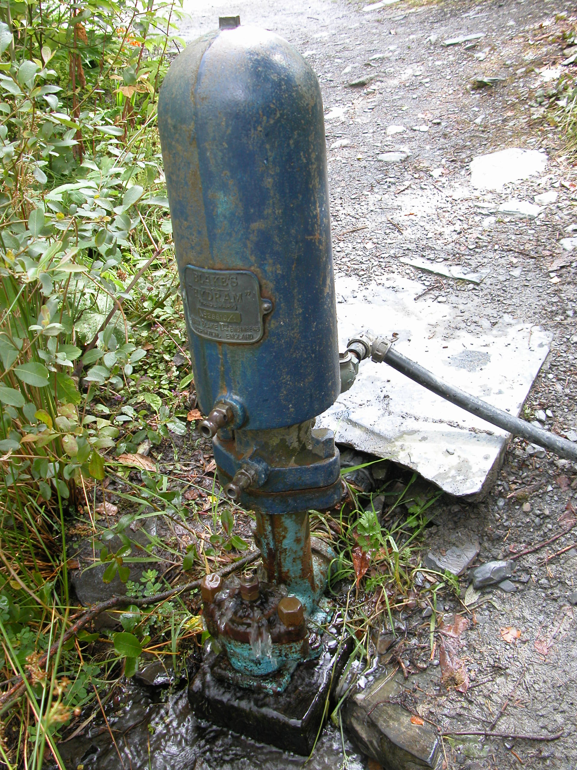 A "Blake's Hydram" Hydraulic ram at the Centre for Alternative Technology. Nikon 5700, by William M. Connolley, August 2005.